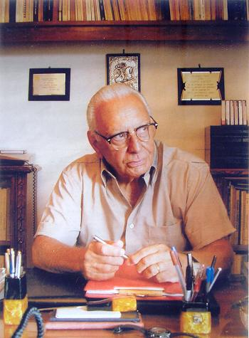 George Carter, Greek wtiter, poet and tv presenter